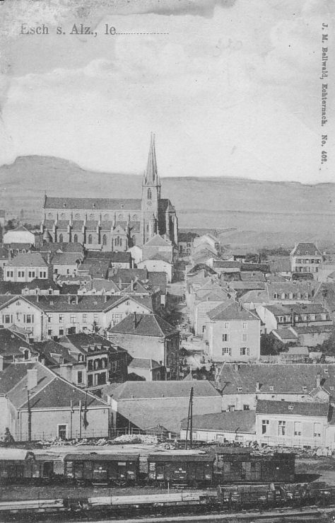 Esch-sur-Alzette, Panorama avec train, Photo by J.M. Bellwald, N° 402.